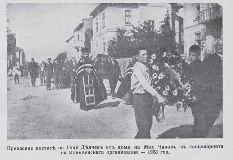 Gotse Delchev remains being moved to Ilinden Organisation